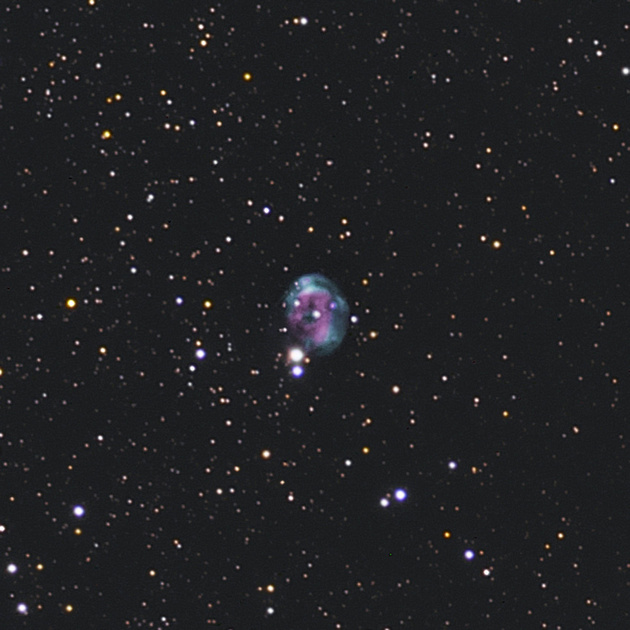 NGC 7008, a planetary nebula, the Fetus Nebula in Cygnus